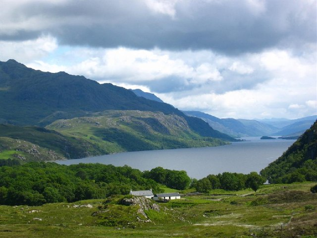 Tollie Farm by Loch Maree. The classic view of Loch Maree from the parking space on the A832 heading towards Poolewe. The photo was taken at 13:23 on 21st June, 2004.The rugged slopes of Bein Airigh Charr rise to the left.